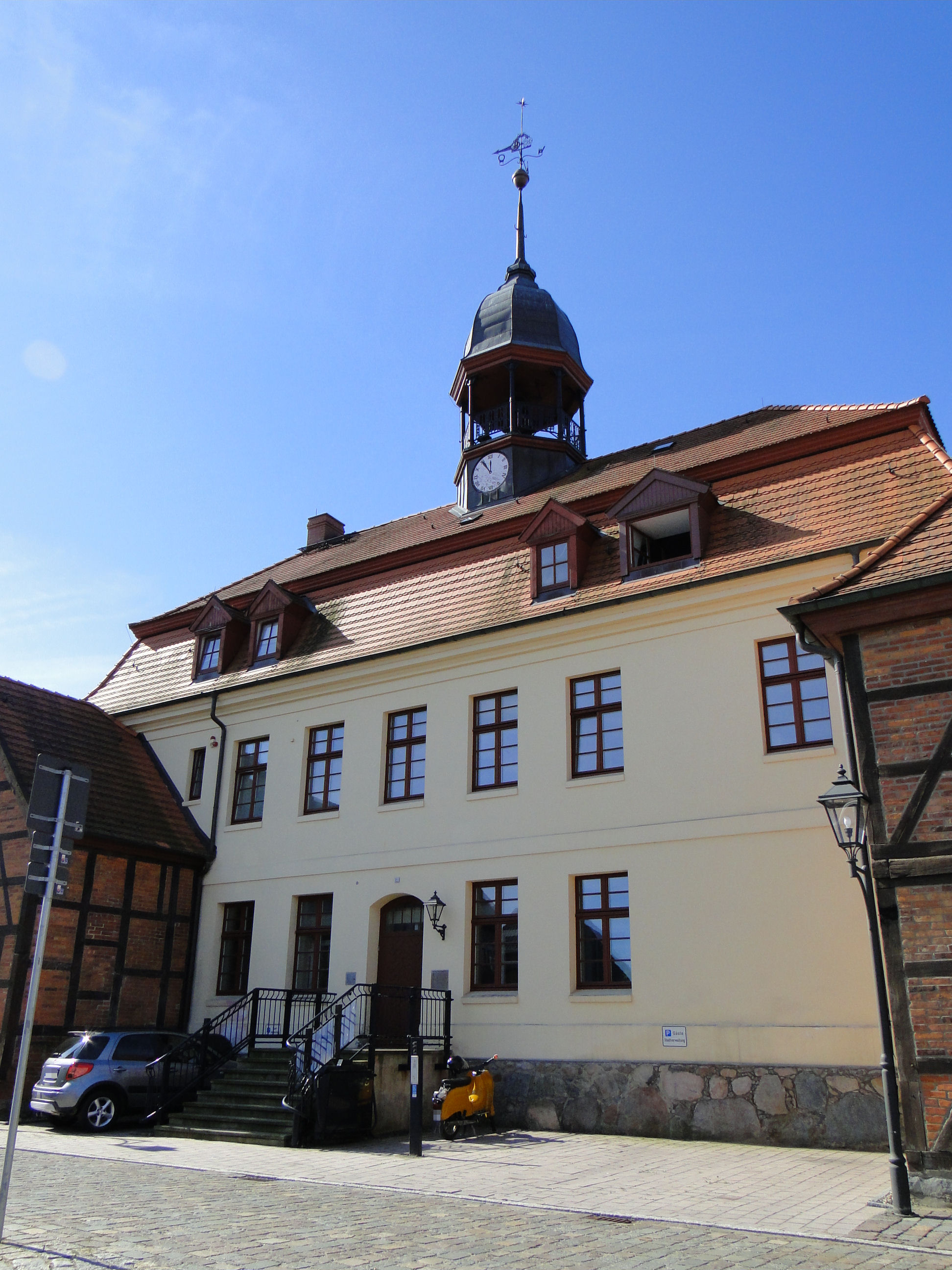 Town hall from the back side in Neustadt-Glewe, district Ludwigslust, Mecklenburg-Vorpommern, Germany